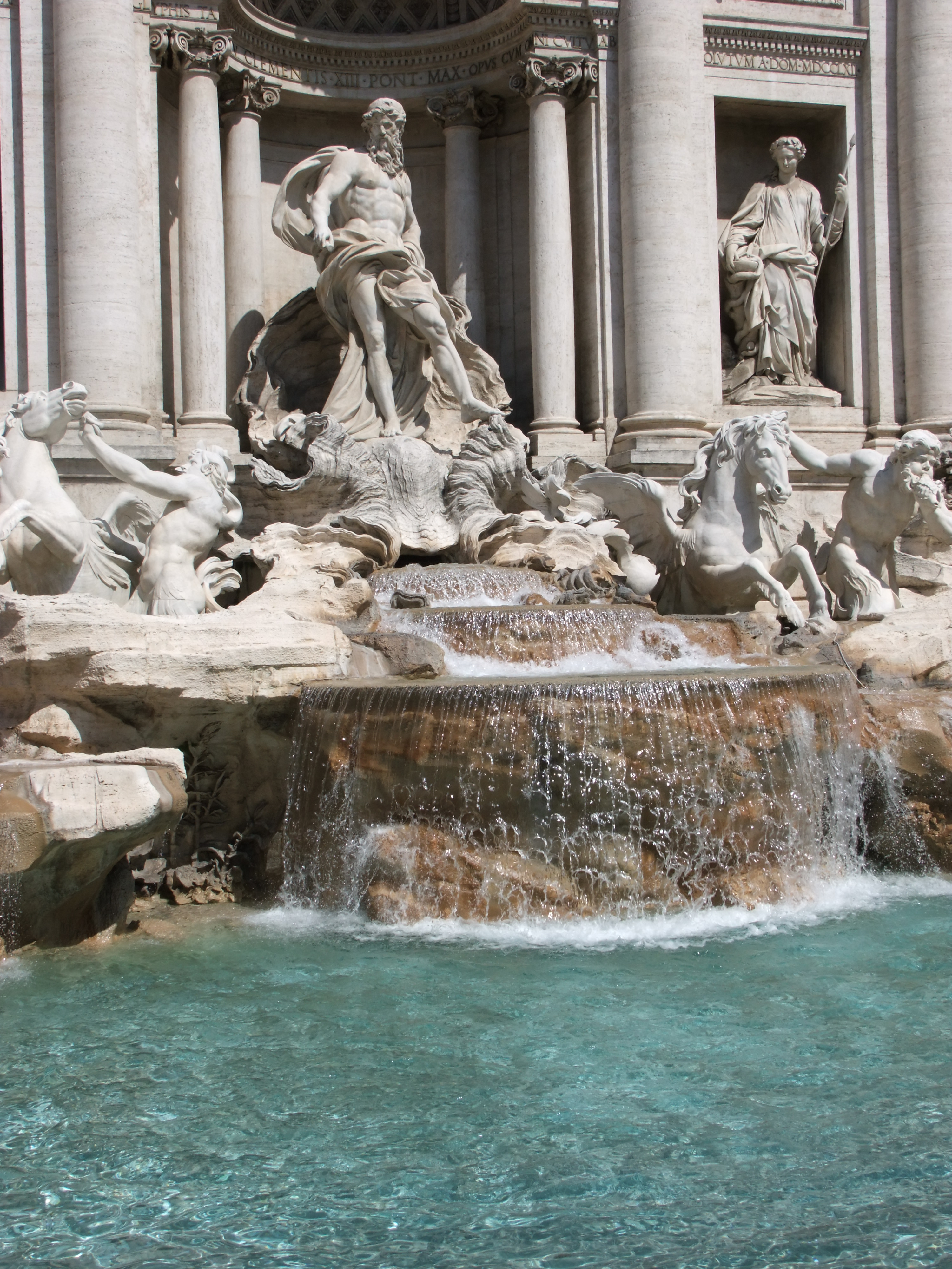 Trevi Fountain, Rome, Italy.